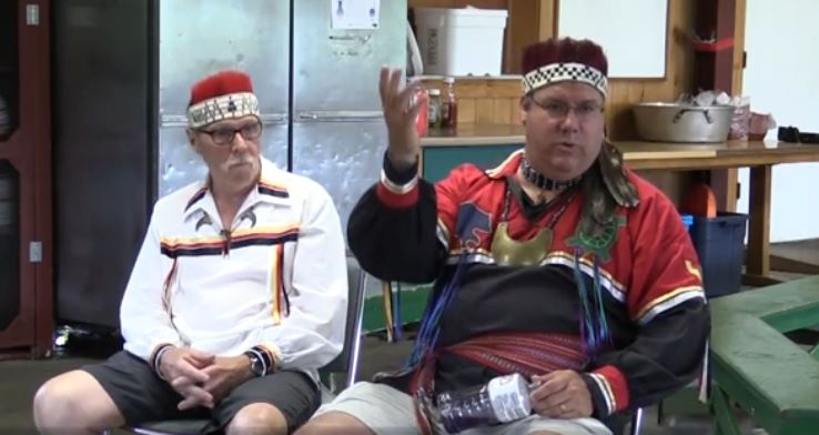 Nulhegan War Chief Bernie Mortz and Chief Don Stevens, Nulhegan annual gathering 8/2016